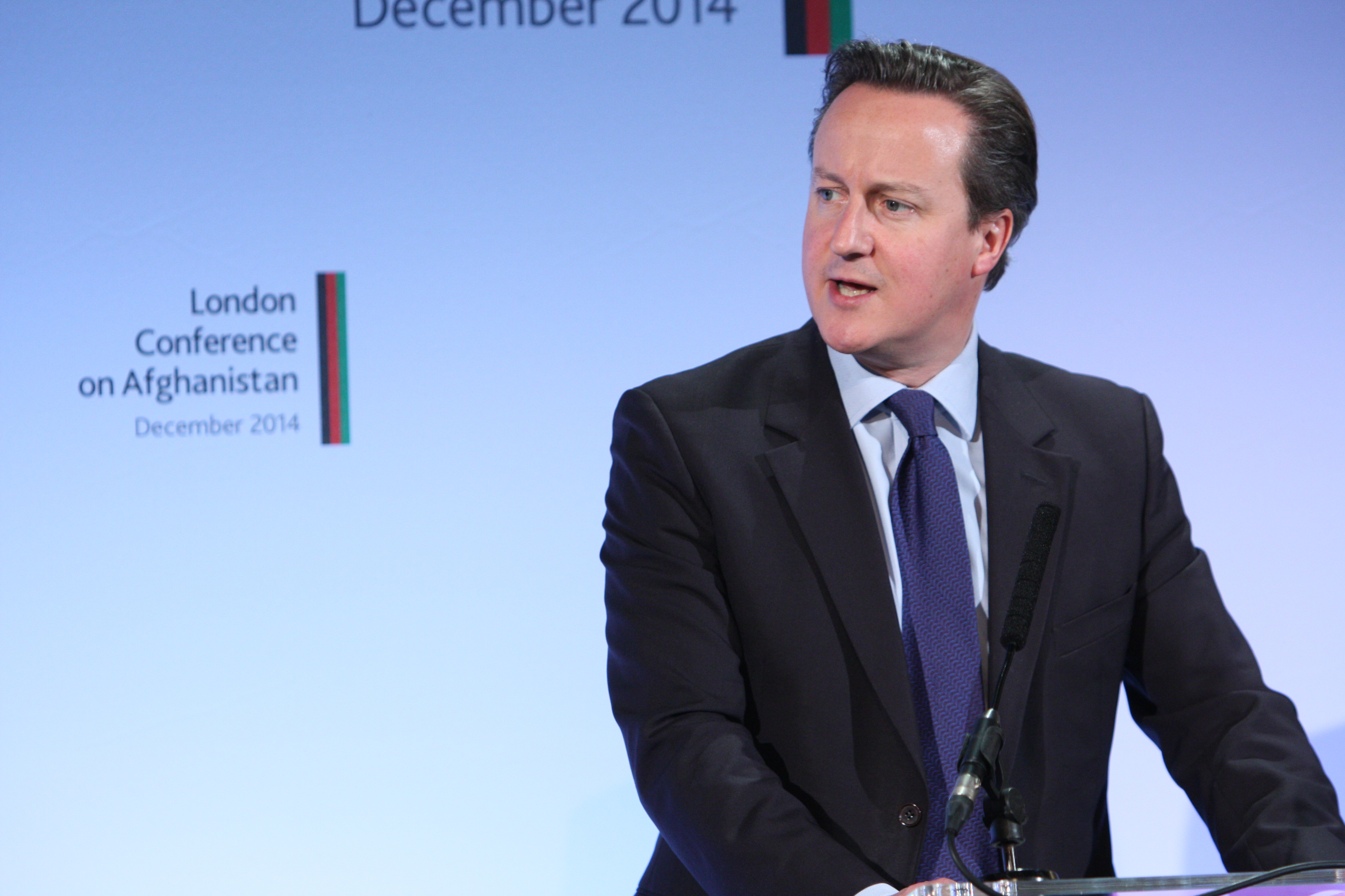 The London Conference on Afghanistan takes place on 4 December 2014, co-hosted by the governments of the UK and Afghanistan. The Conference brings together the Afghan government and international community in support of a secure and peaceful future for Afghanistan. Find out more at: Picture: Patrick Tsui/FCO Free-to-use photo This image is posted under a Creative Commons - Attribution Licence, in accordance with the Open Government Licence. You are free to embed, download or otherwise re-use it, as long as you credit the source as ‘Patrick Tsui/FCO’.